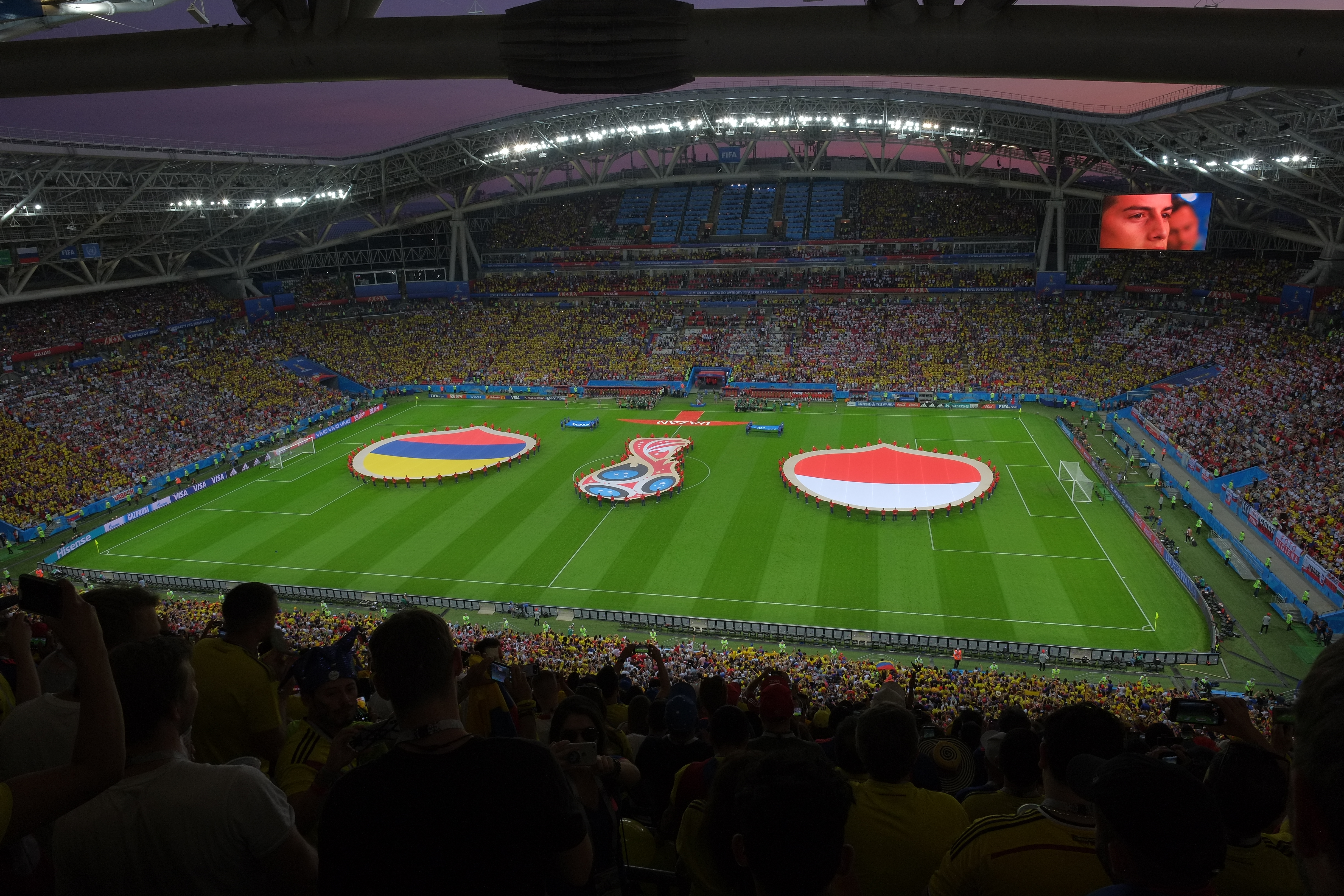 Poland v. Columbia at 2018 FIFA World Cup